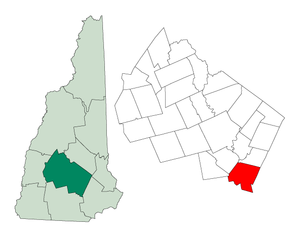 Map of Hooksett, a municipality in Merrimack County, New Hampshire